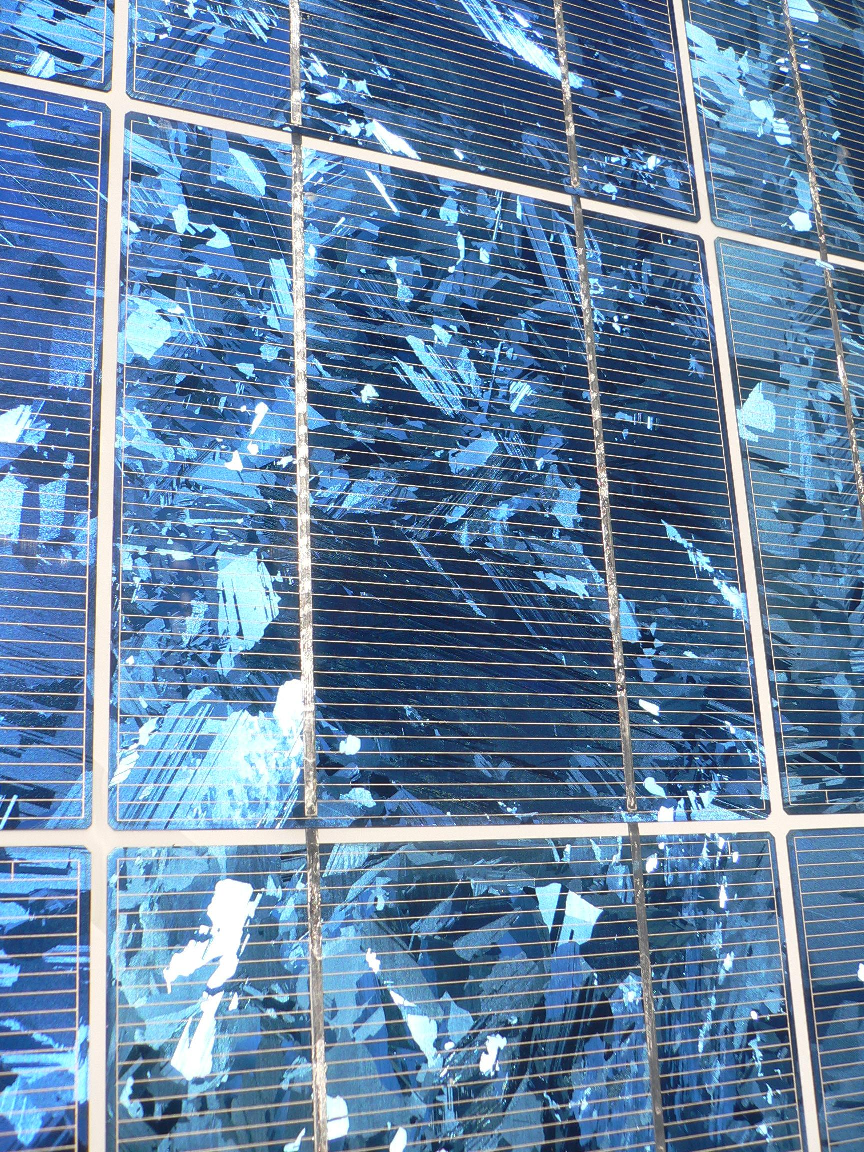 polycristalline silicon wafer in photovoltaic module, q-cells 5" (around 2002)